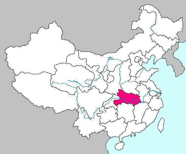 Maps of Hubei Province of [China